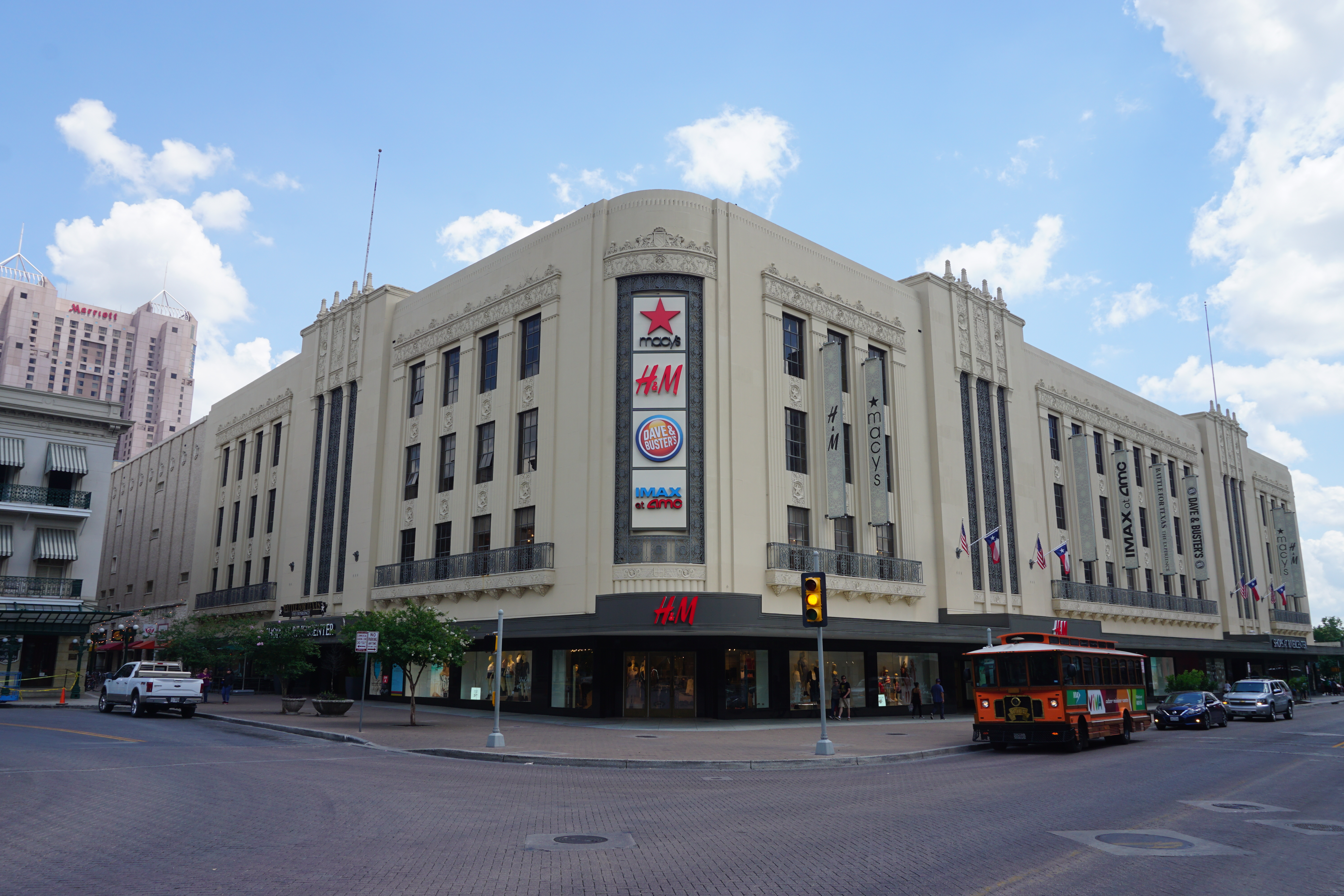 Joske's flagship store in San Antonio, Texas (United States).